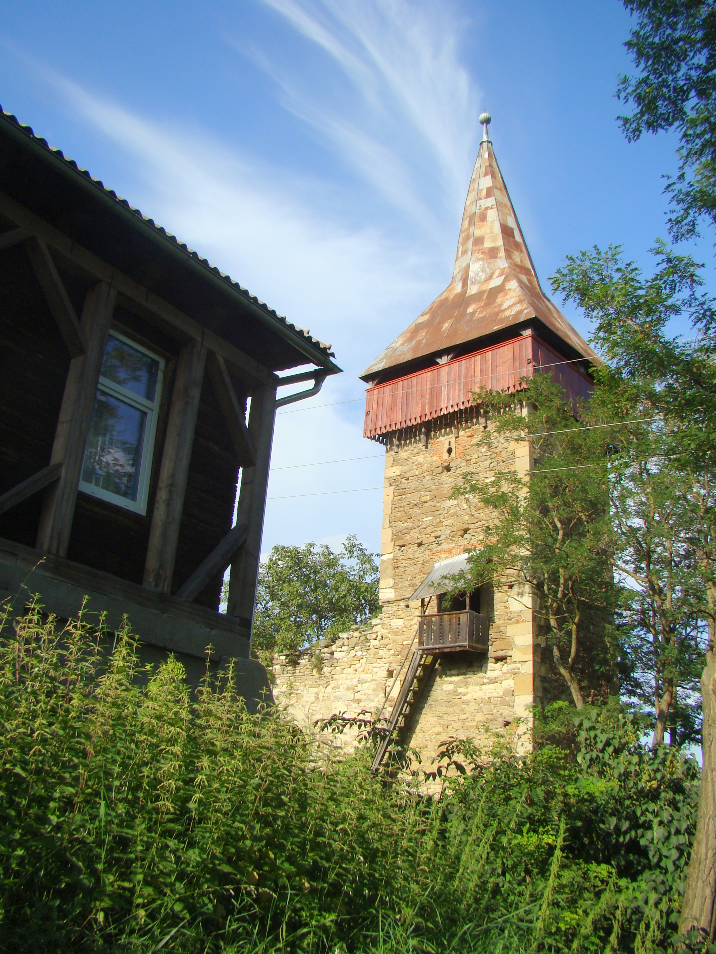 Lutheran church in Moruț, Bistrița-Năsăud county, Romania